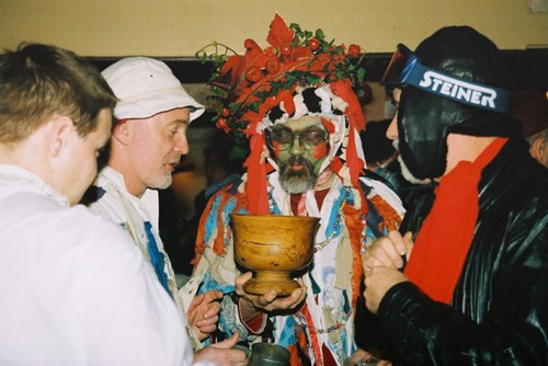 Twelfth Night performers drinking from a Wassail Bowl.